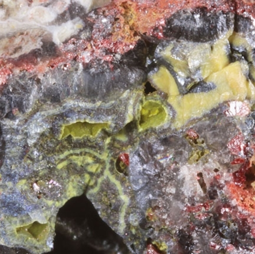 Yellowish zones of edgarbaileyite along with bright red cinnabar. Dimensions: 6.6 x 4.8 x 4.1 cm. Locality: Clear Creek claim, Picacho Peak, New Idria District, Diablo Range, San Benito Co., California, USA